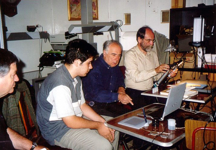 Musis